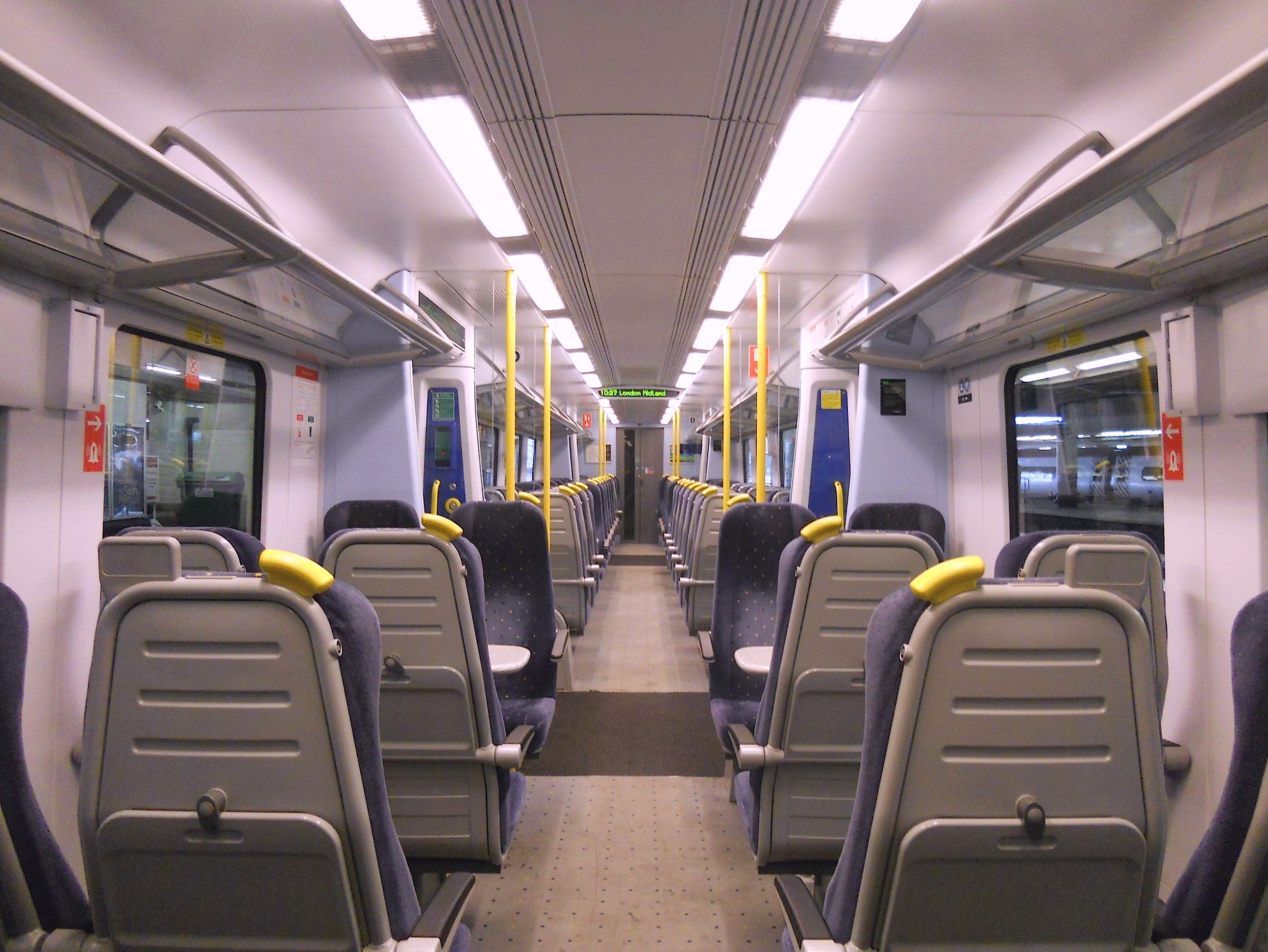 The interior of Standard Class aboard a Class 350/1 showing the neutral colour scheme as originally used by both Central Trains and Silverlink Train Services